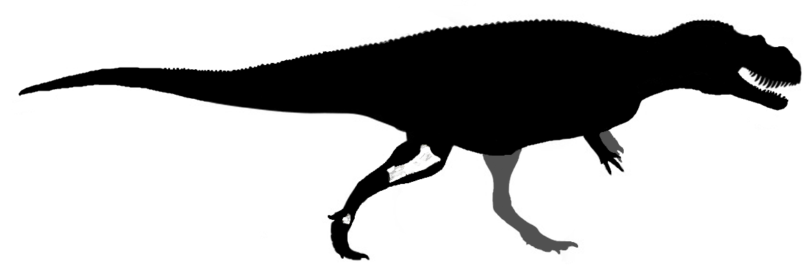 Skeletal diagram Fosterovenator based on the holotype, silhouette based in skeletal diagram of Ceratosaurus by Scott Hartman.